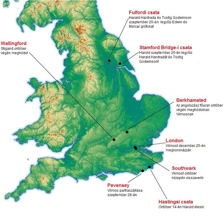 Map of Norman conquest of England in 1066 (with Hungarian legend)